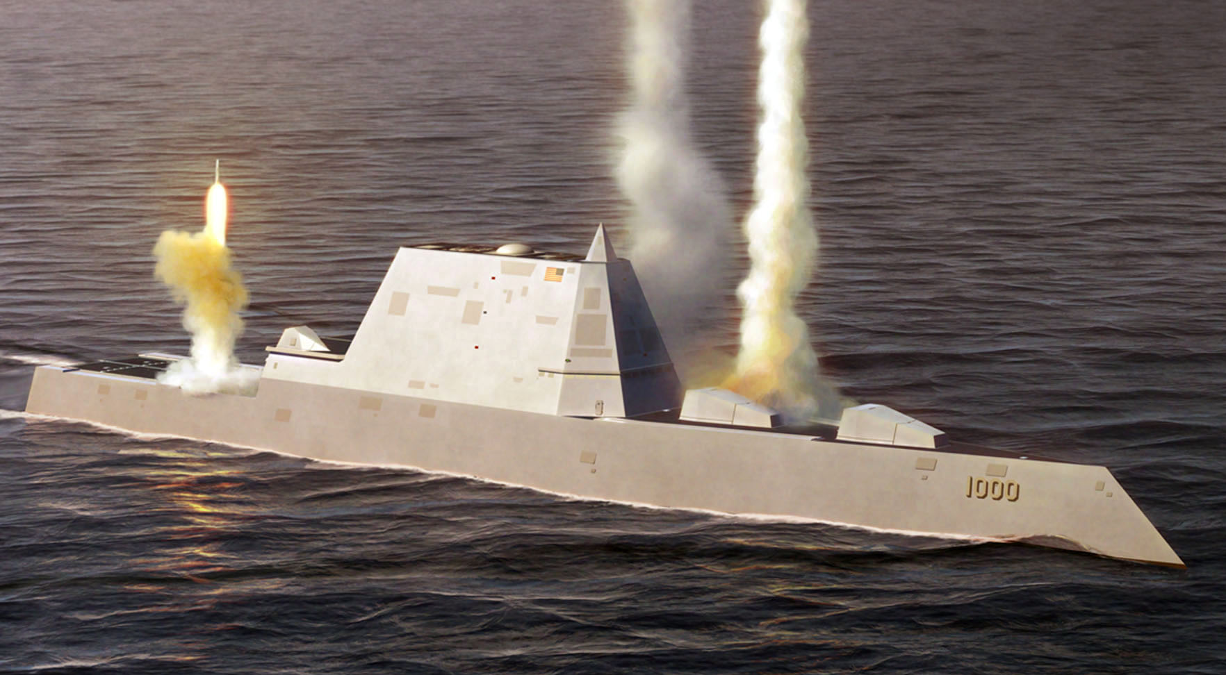 An artist rendering of the Zumwalt class destroyer DDG 1000, a new class of multi-mission U.S. Navy surface combatant ship designed to operate as part of a joint maritime fleet, assisting Marine strike forces ashore as well as performing littoral, air and sub-surface warfare.